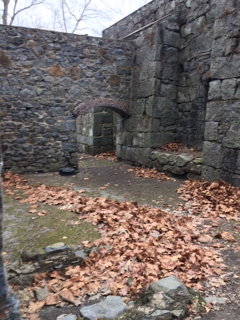 Interior of powder mill in Hagley Yard along property acquired in 1810s.